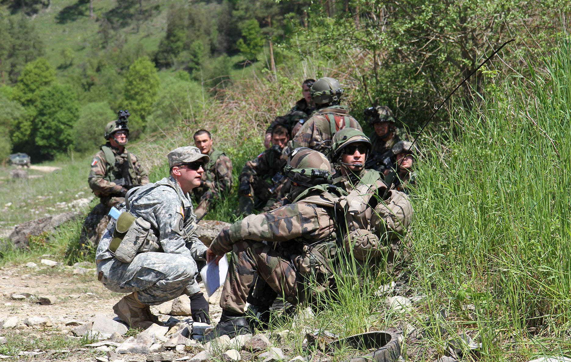 Hohenfels, Germany (May 19, 2014) – A U.S. Army observer controller speaks with members of the French 126th Infantry Regiment after an exercise to perform a deliberate attack during Combined Resolve II. Combined Resolve II is a U.S. Army Europe-directed multinational exercise at the Grafenwoehr and Hohenfels Training areas, including more than 4,000 participants from 13 allied and partner countries (U.S. Army photo by Sgt. Bethany E. McMeans).